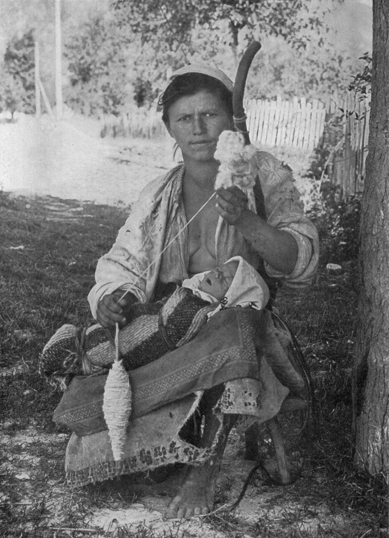 A HUNGARIAN GYPSY MOTHER AND CHILD—AT HOME. Neither the poets who have celebrated the gypsy passion for freedom and the open road, nor the ethnologists who have studied the mysterious origin of the race have offered an explanation of the Romany's lack of that almost universal quality—a love for home.